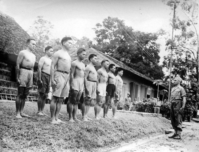 Training of the Royal Dutch-Indian Army in Ambon